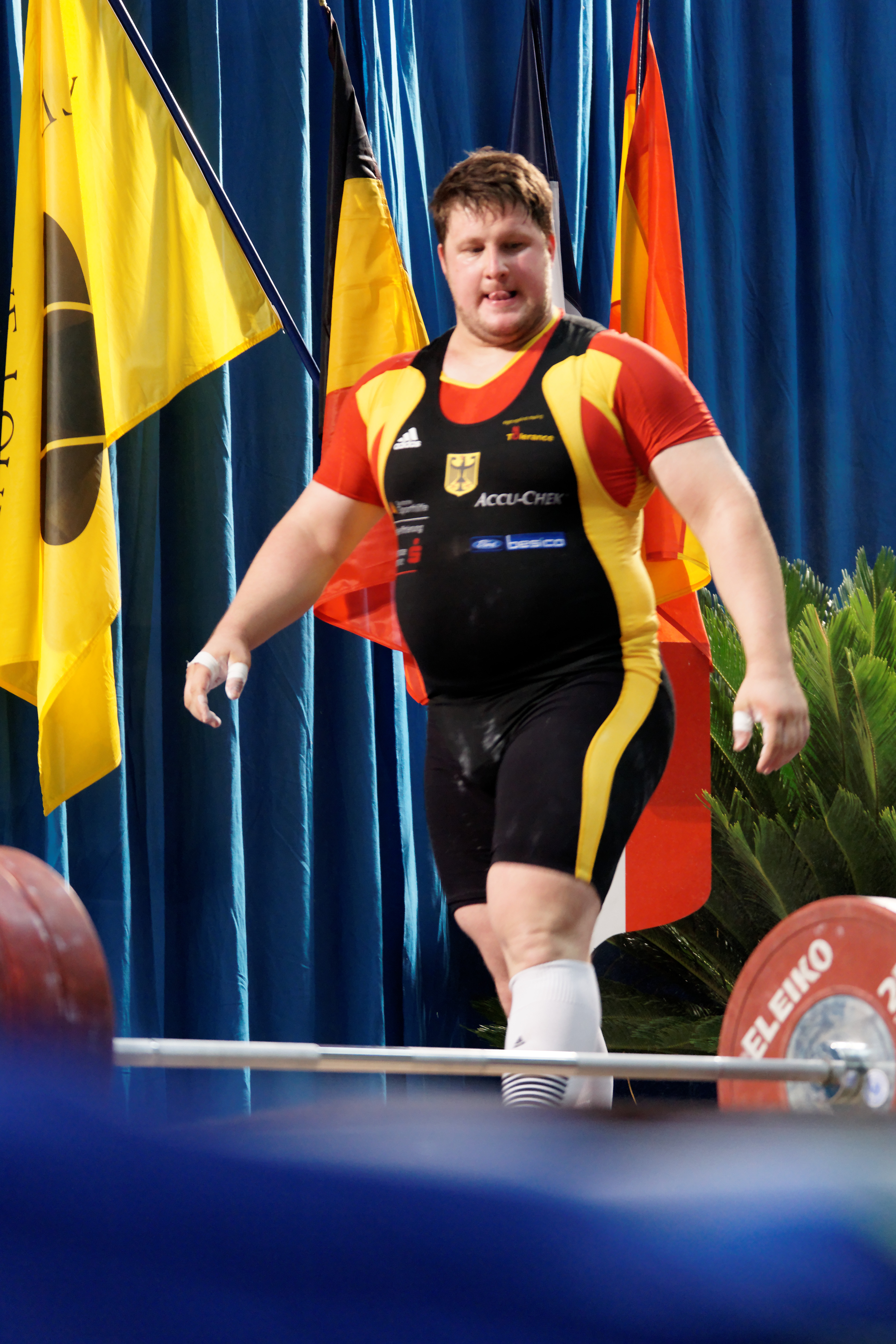 Matthias Steiner, champion olympique 2008 des 105kg+ au souvenir Monique Maurice, Villeneuve-Loubet, France